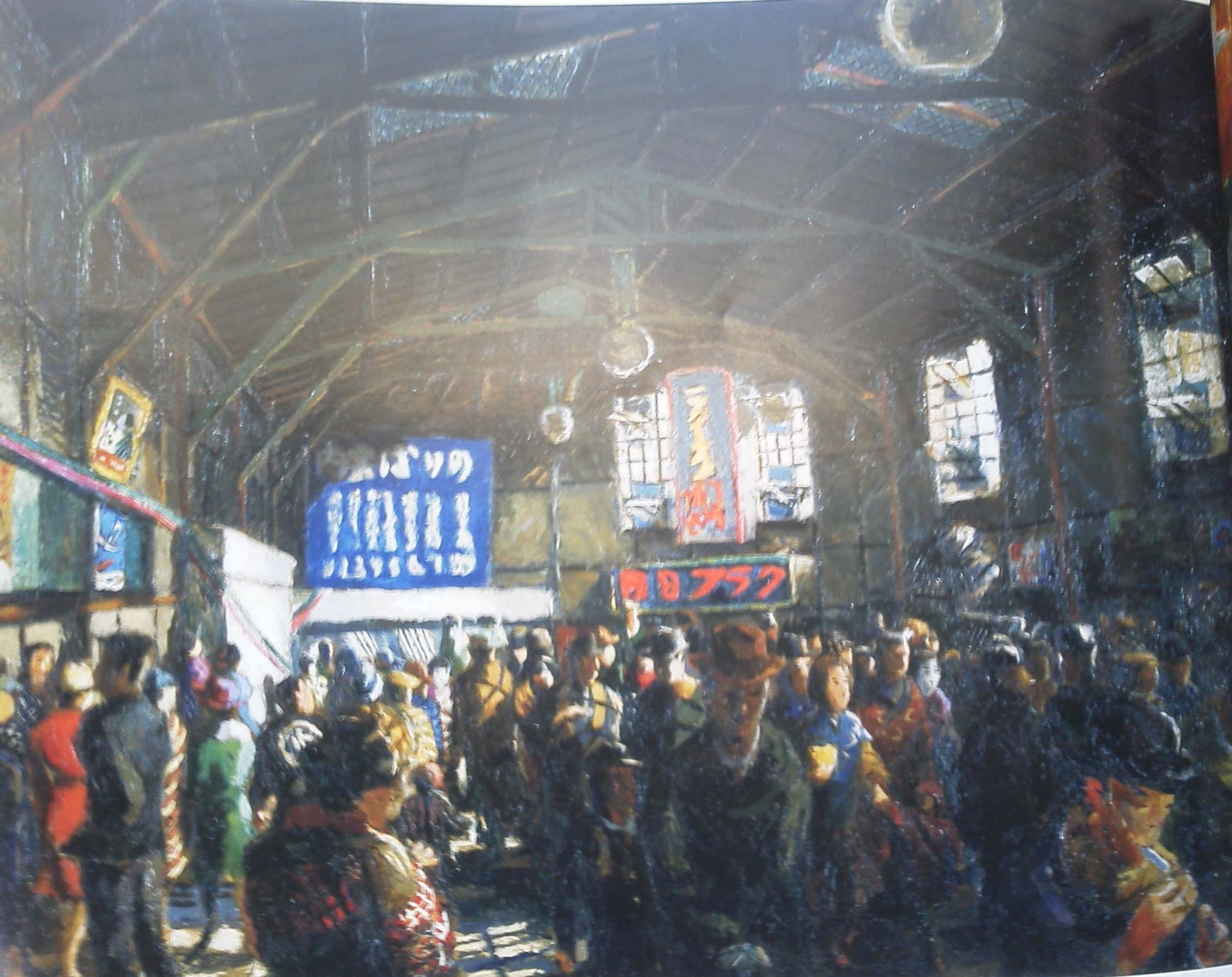 The prewar Shinjuku Station yard.